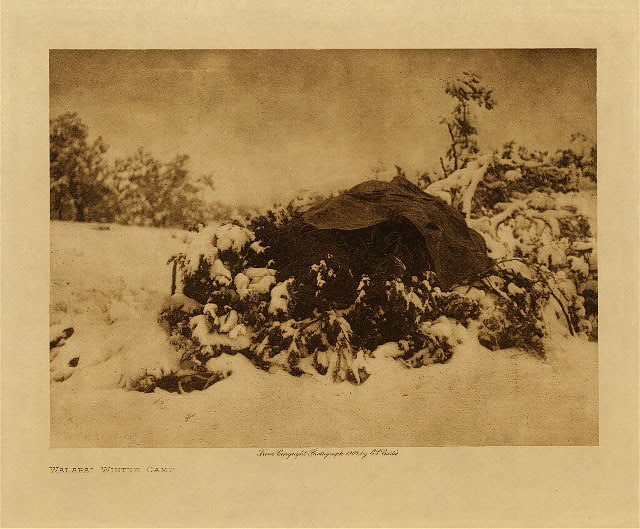 A Hualapai winter camp, photographed by Edward Curtis for the US Federal government in 1907.